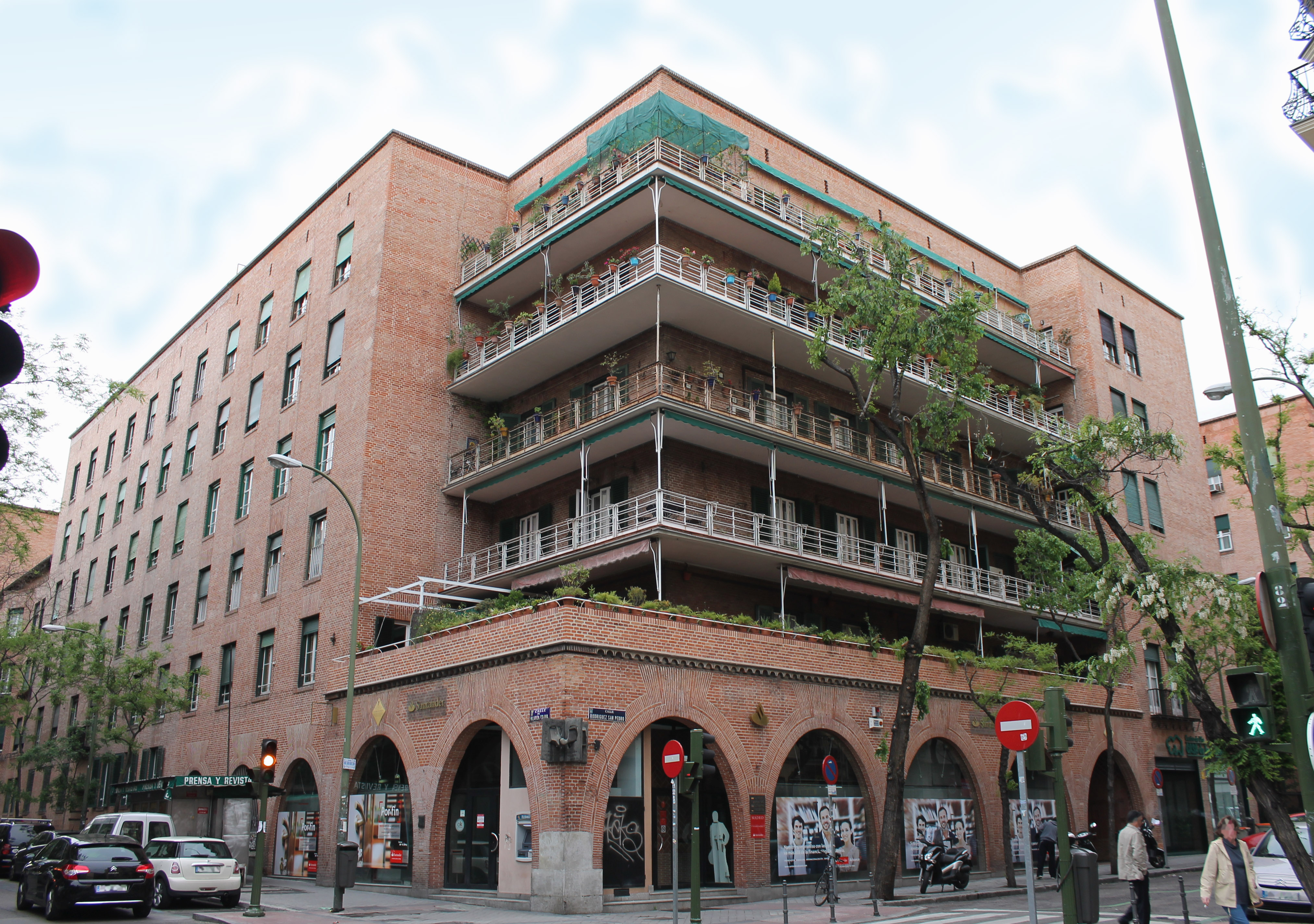 Façade of Casa de las Flores in Madrid (Spain).